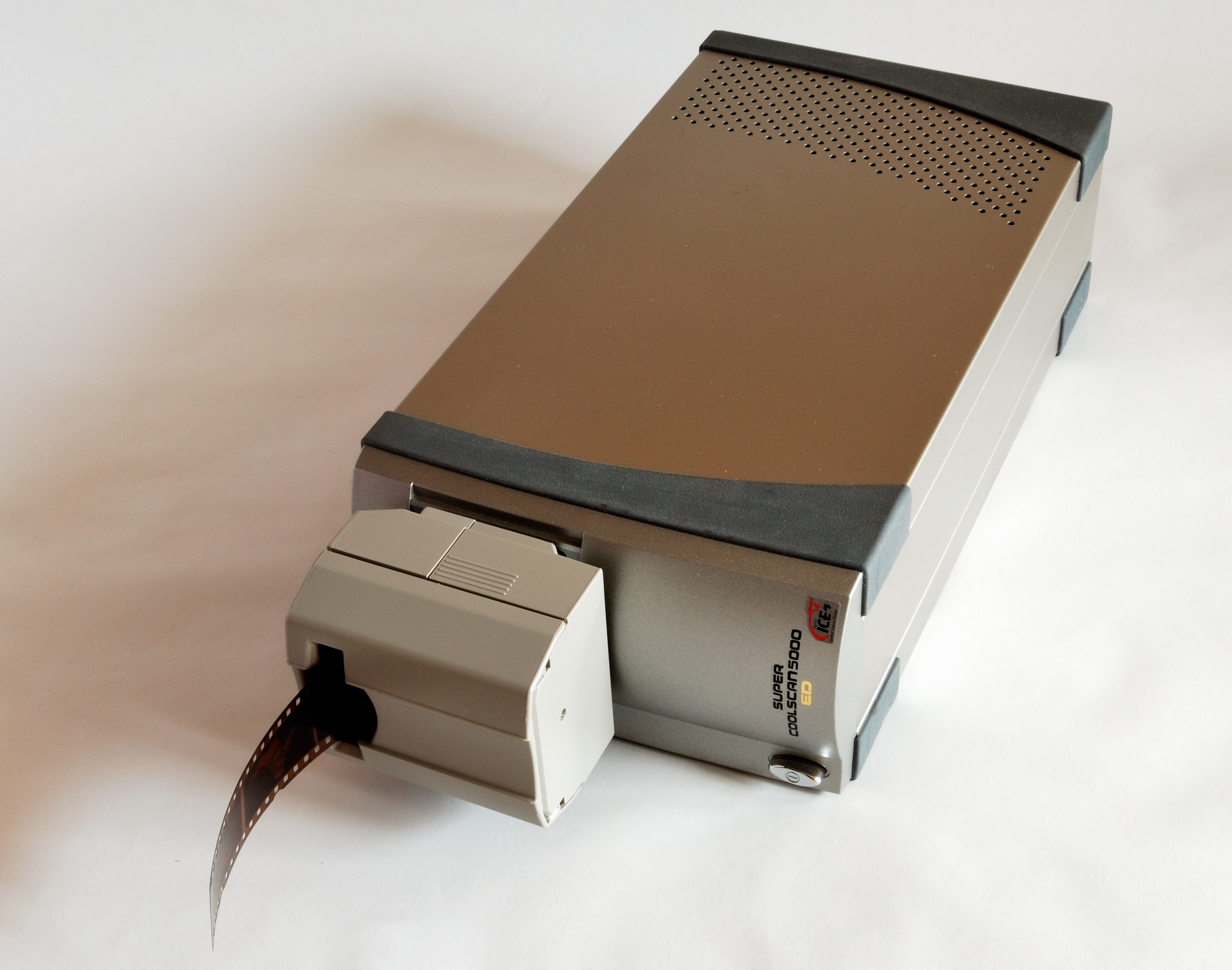 Nikon Coolscan 5000 ED with the strip film adapter SA-21